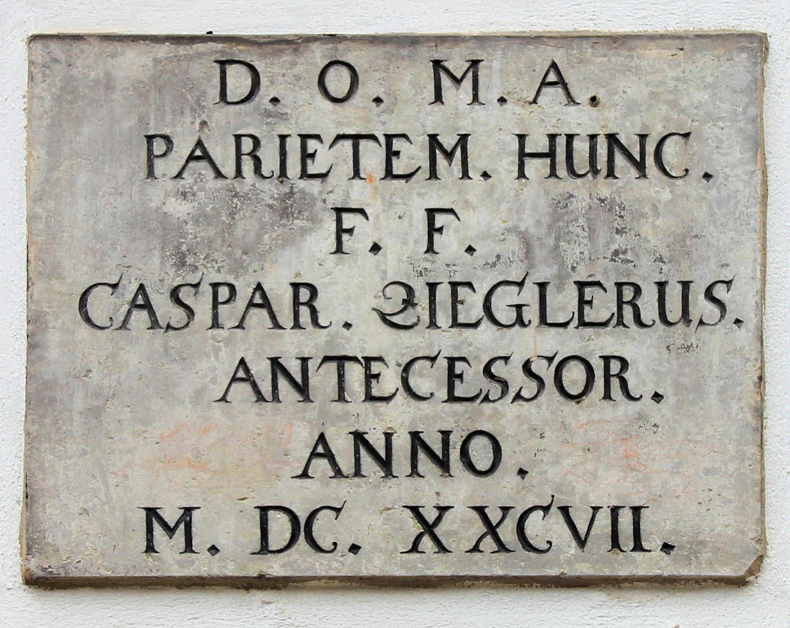 Memorial plaque, Caspar Ziegler, Schloßstraße 1, Lutherstadt Wittenberg, Germany Koordinate:51°51′58″N 12°38′37″E / 51.86611°N 12.64361°E